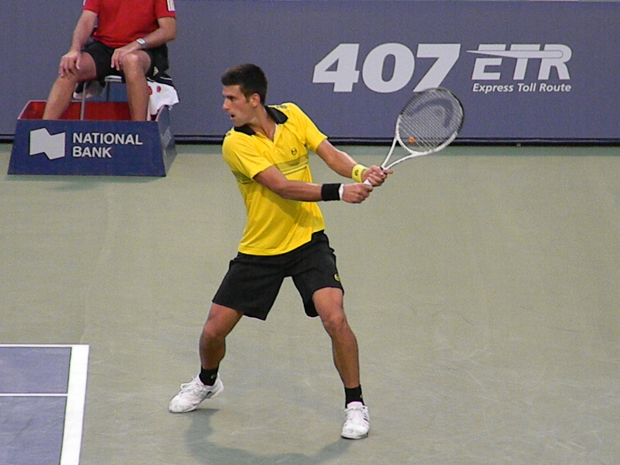 Novak Đoković vs Roger Federer on 2010 Rogers Cup Semifinal game in Toronto, Rexall Centre 1:2 (1:6, 6:3, 5:7)